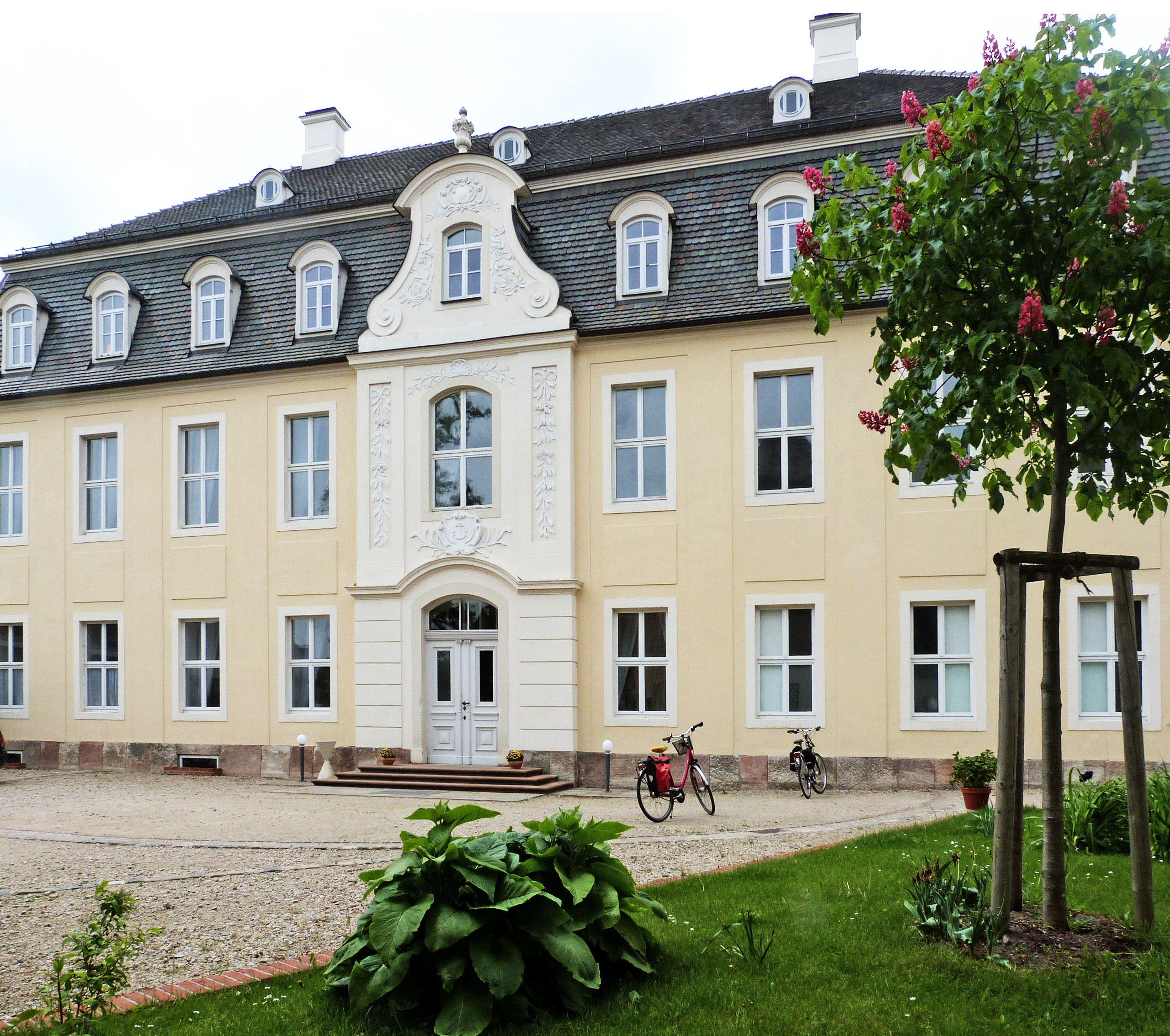 Ermlitz manor house (Schkopau, district of Saalekreis, Saxony-Anhalt)